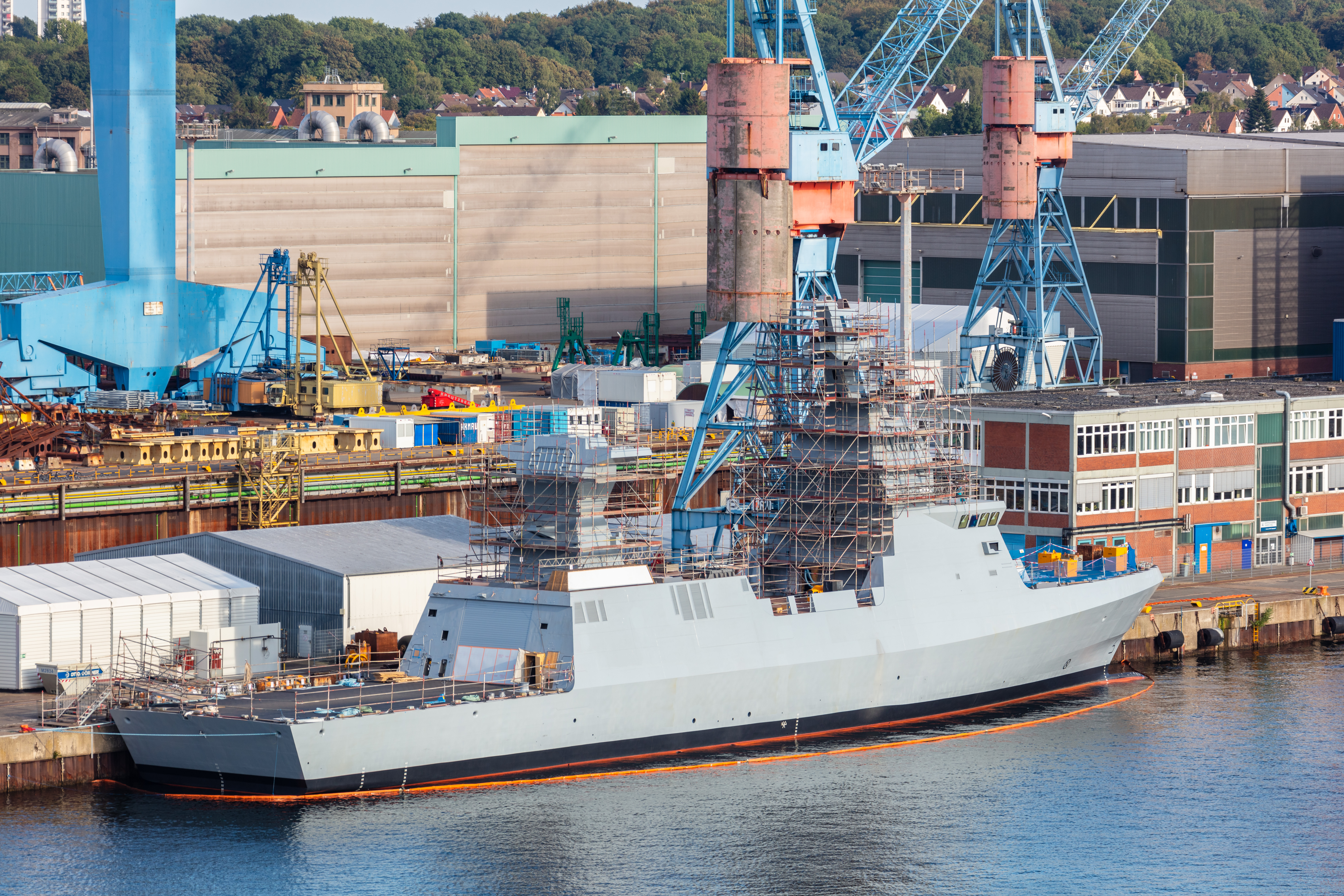 Ship under construction in Kiel port, Germany